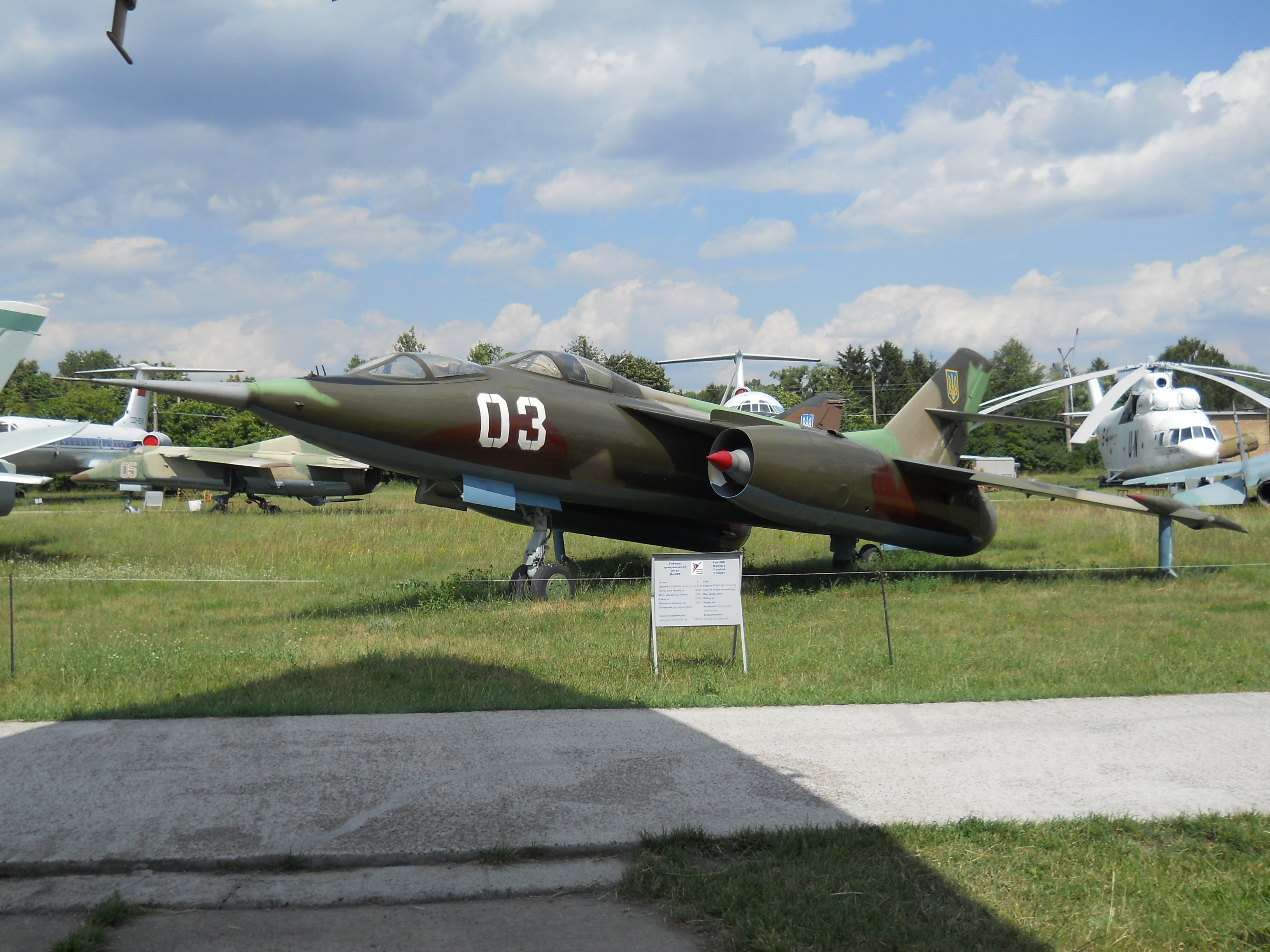 A Yakovlev Yak-28U in the Ukrainian State Aviation Museum.